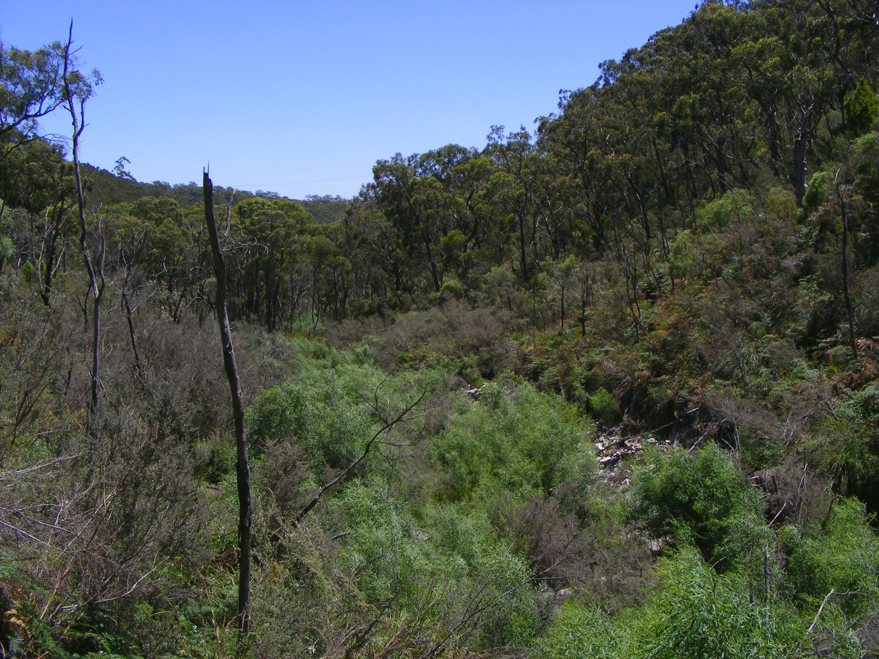 Wilson's bog in Cleland conservation park, on the Adelaide side of Mount Lofty, Adelaide, South Australia. The bog is fed by permanent springs and flows out into first creek, tributary of the River Torrens